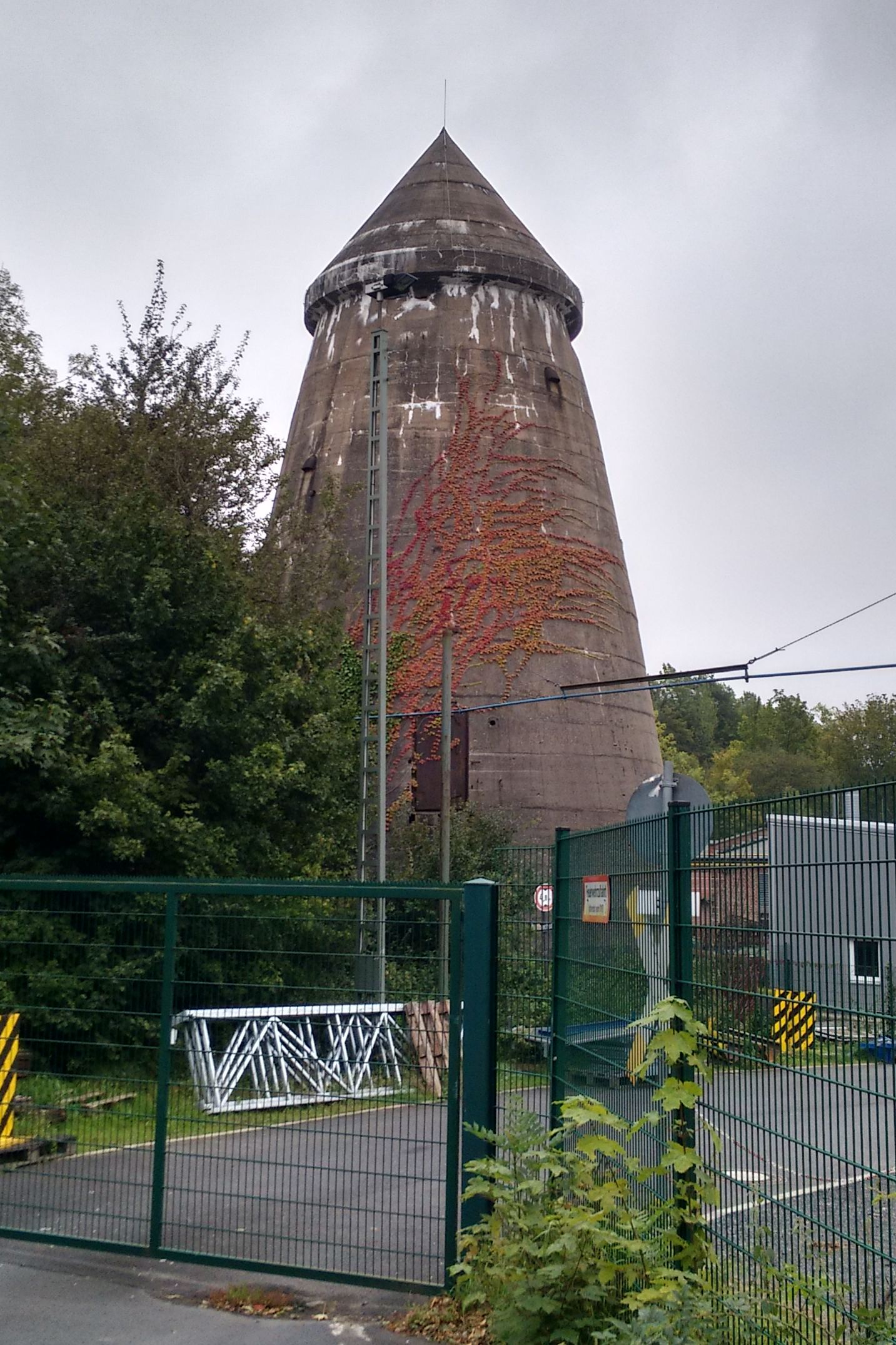 Bunker in Kassel-Harleshausen in Hesse, Germany